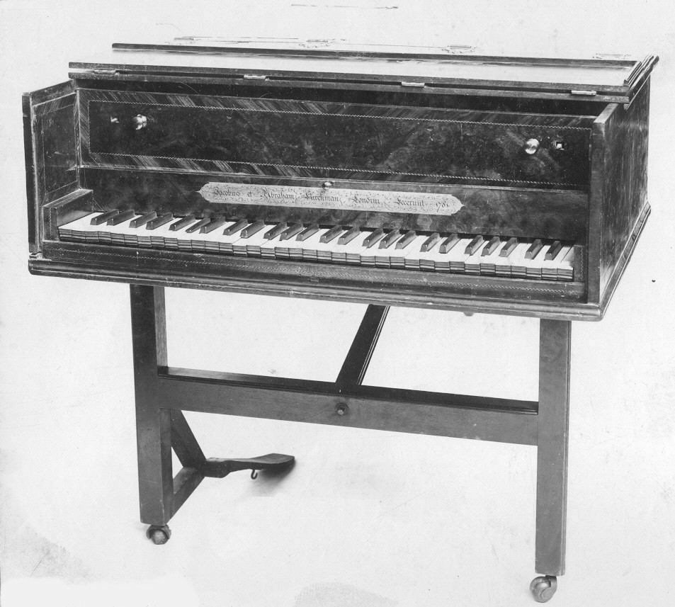 British; Harpsichord; Chordophone-Zither-plucked-harpsichord